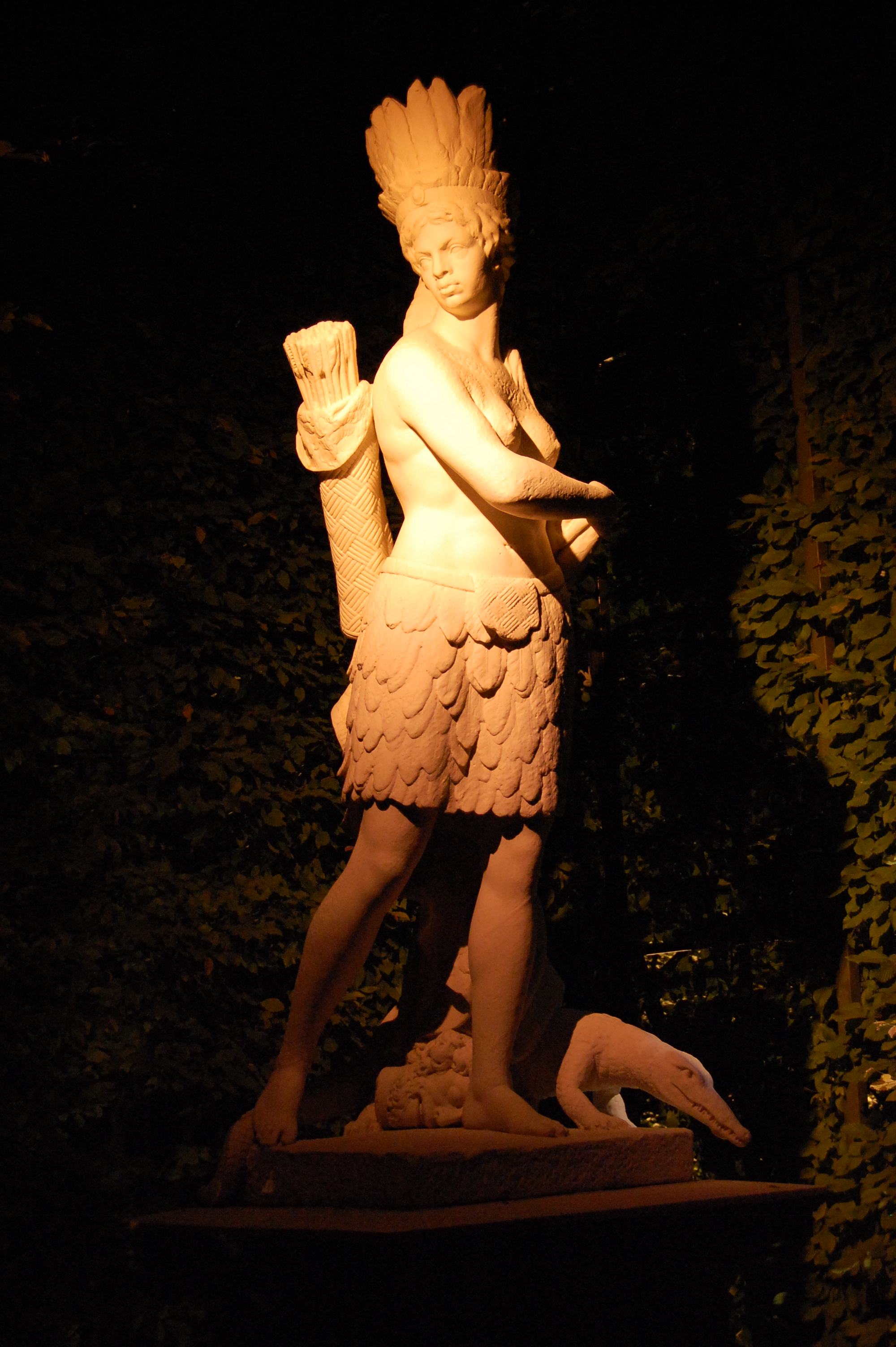 L'Amérique by Gilles Guérin